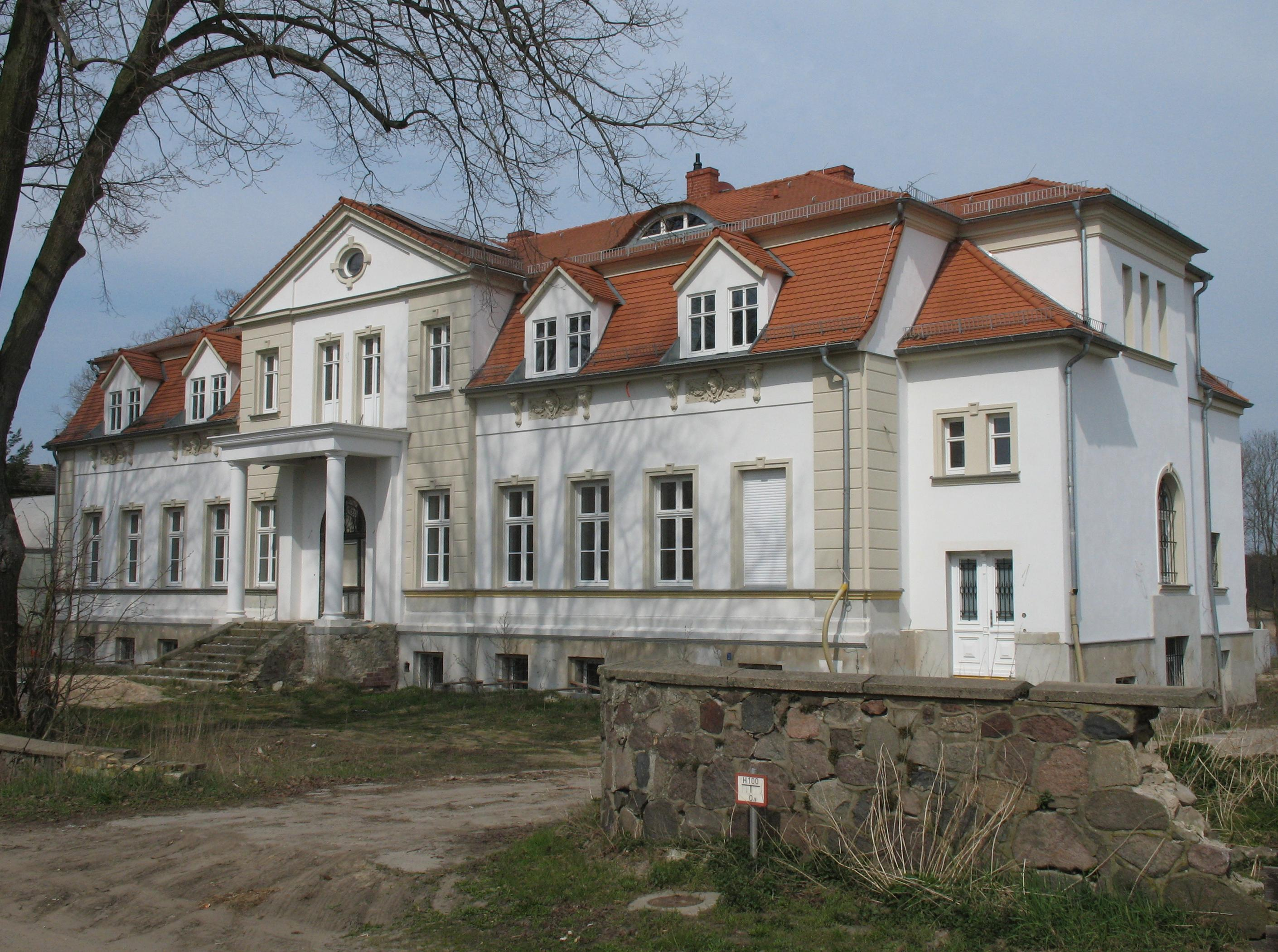 Manor in Gransee-Wentow in Brandenburg, Germany